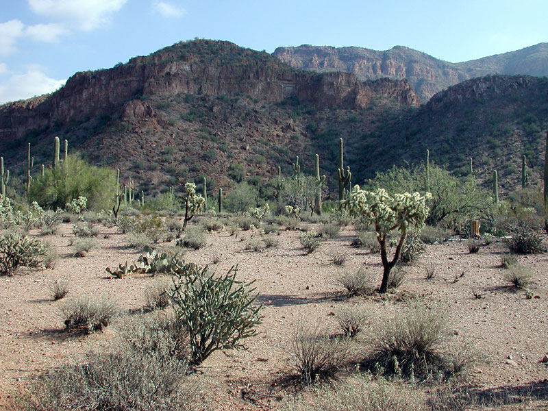 Mineral Mountains in central Arizona, USA, as viewed from south of Box Canyon. Principal vegetation type throughout the range is Upland Sonoran Desert Scrub.Sahuara cacti-(Carnegiea gigantea) and Cholla cactus are visible.